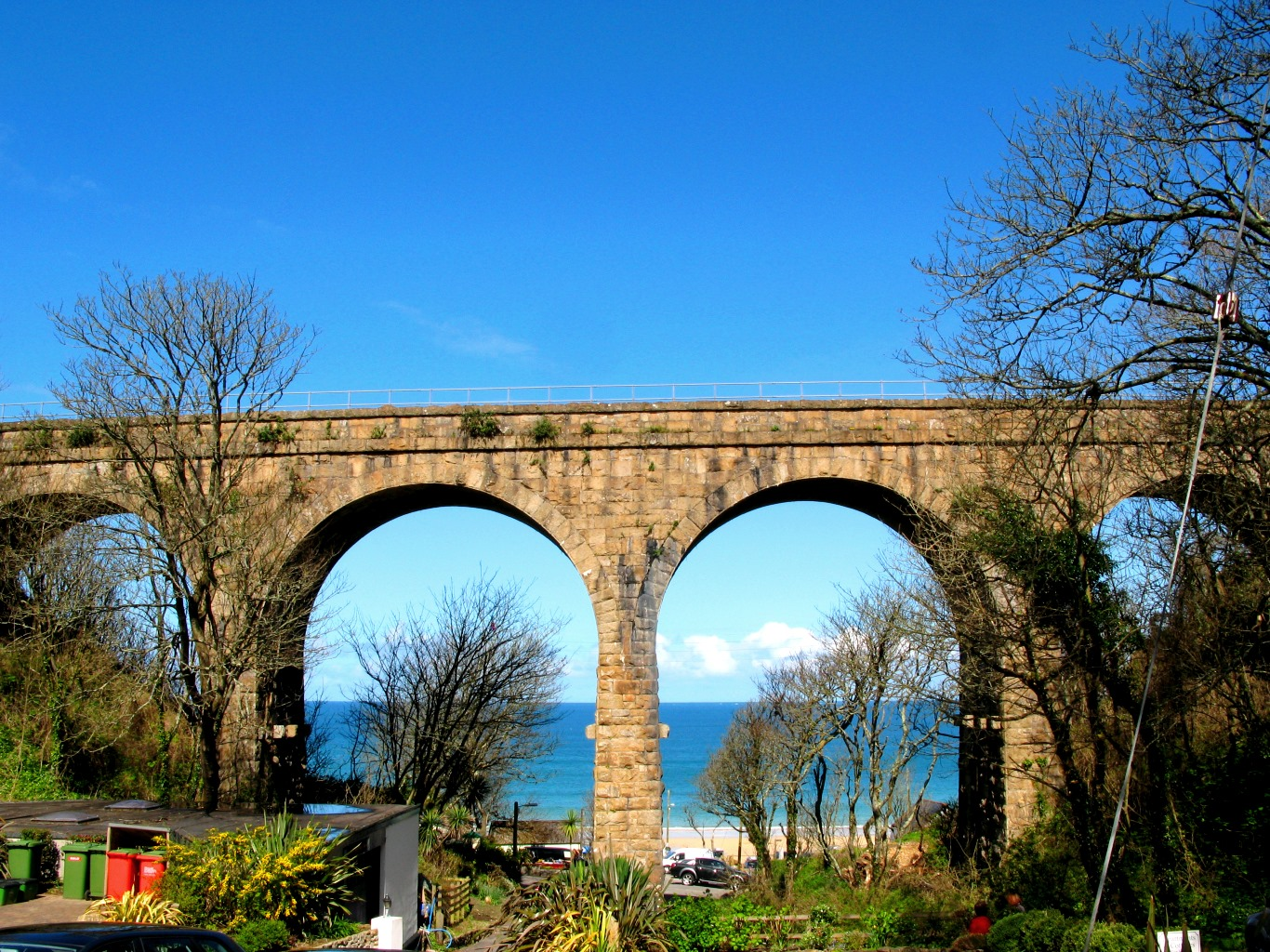 Carbis Bay viaduct, Cornwall, United Kingdom. Opened in 1877 on the St Ives branch line; St Ives is to the left in this view.